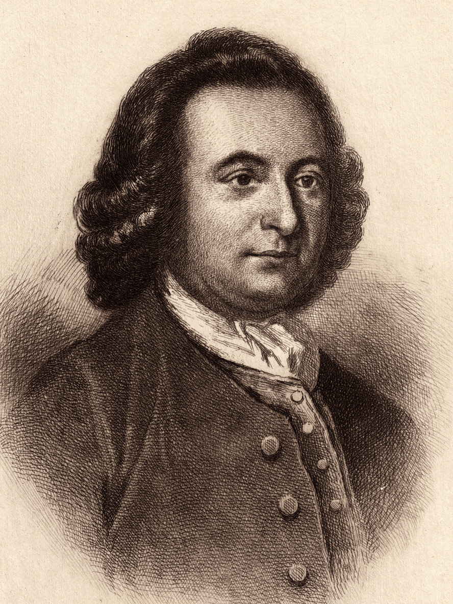 Print of George Mason of Virginia based on a painting in the possession of the family. Courtesy of the University of Chicago LIbrary and the Library of Congress American Memory digital collection.